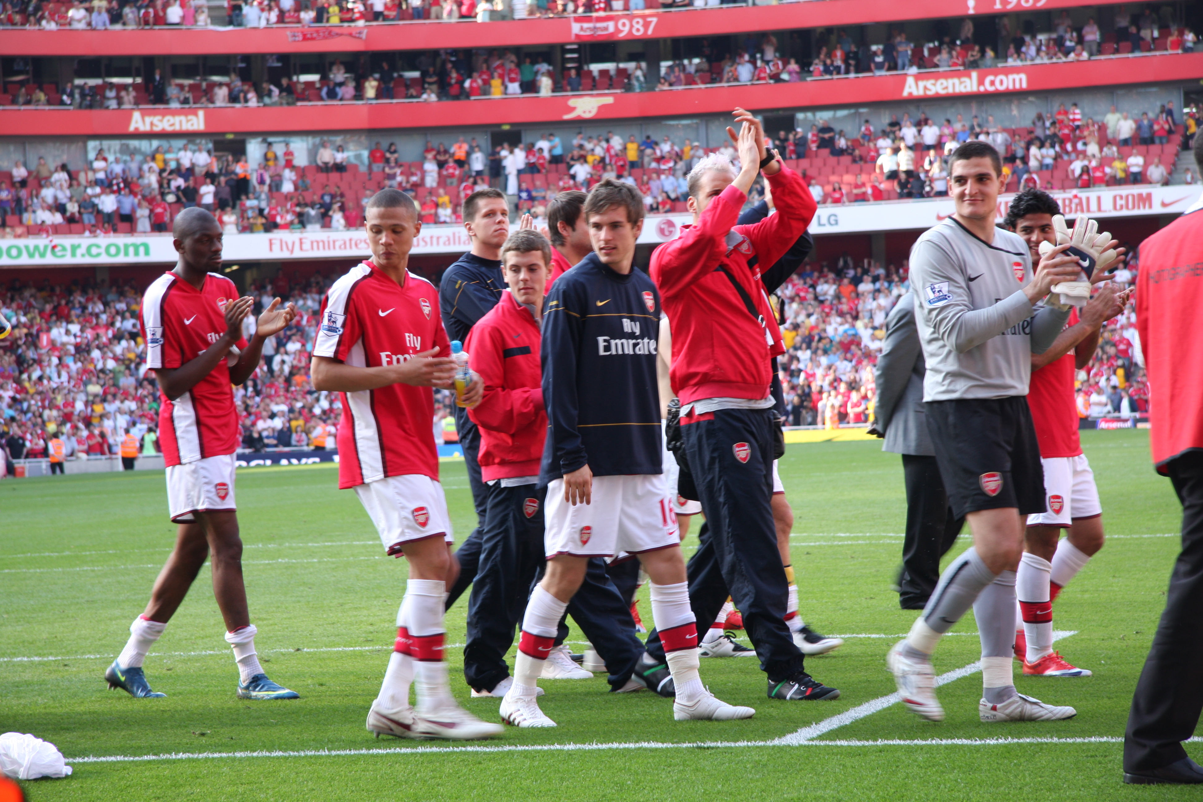 Pictured: Abou Diaby, Kieran Gibbs, Wojciech Szczęsny, Jack Wilshere, Aaron Ramsey, Vito Mannone, Carlos Vela